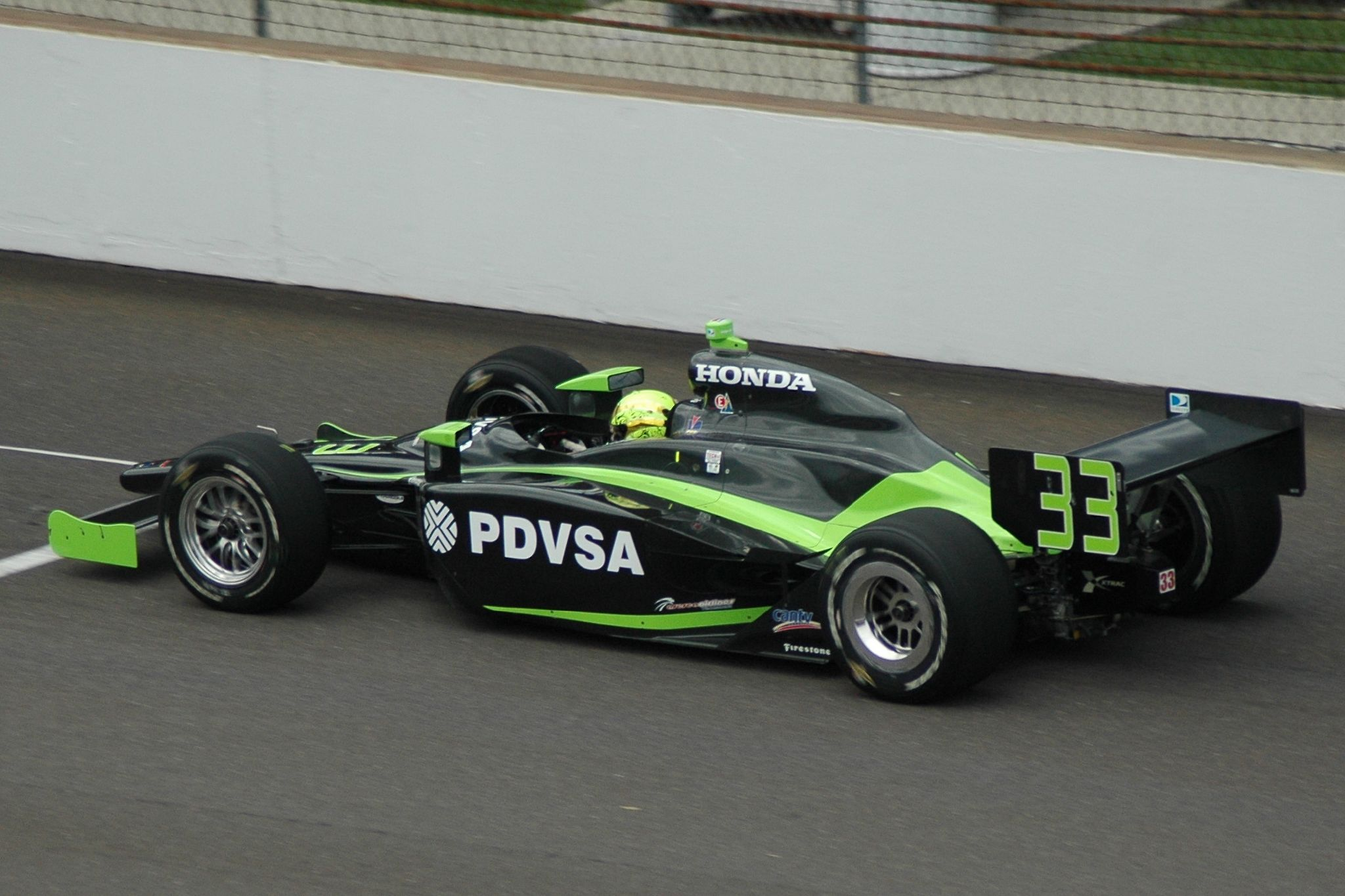 E.J. Viso at Indianapolis 500 practice.